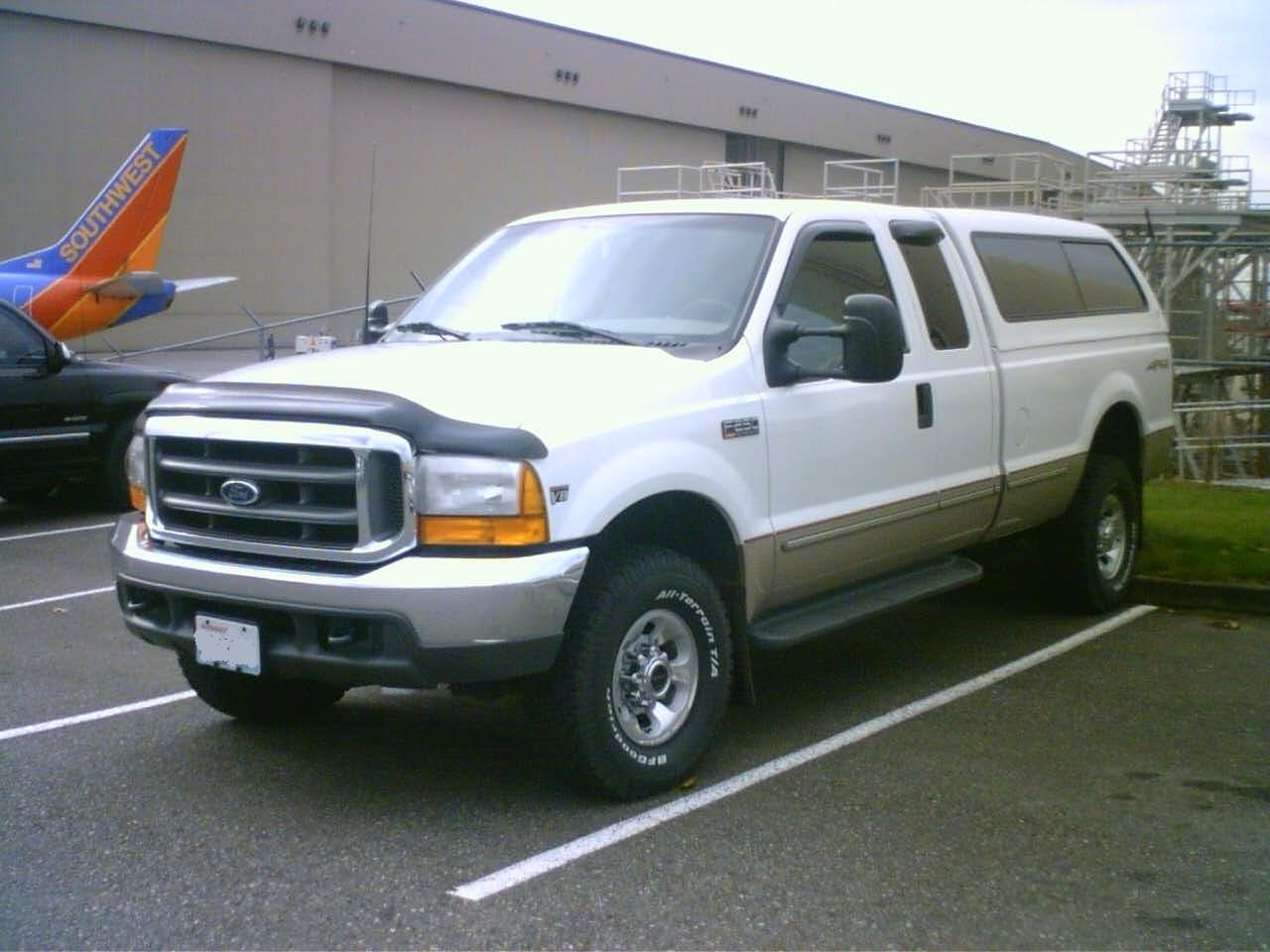 Ford F250 super duty